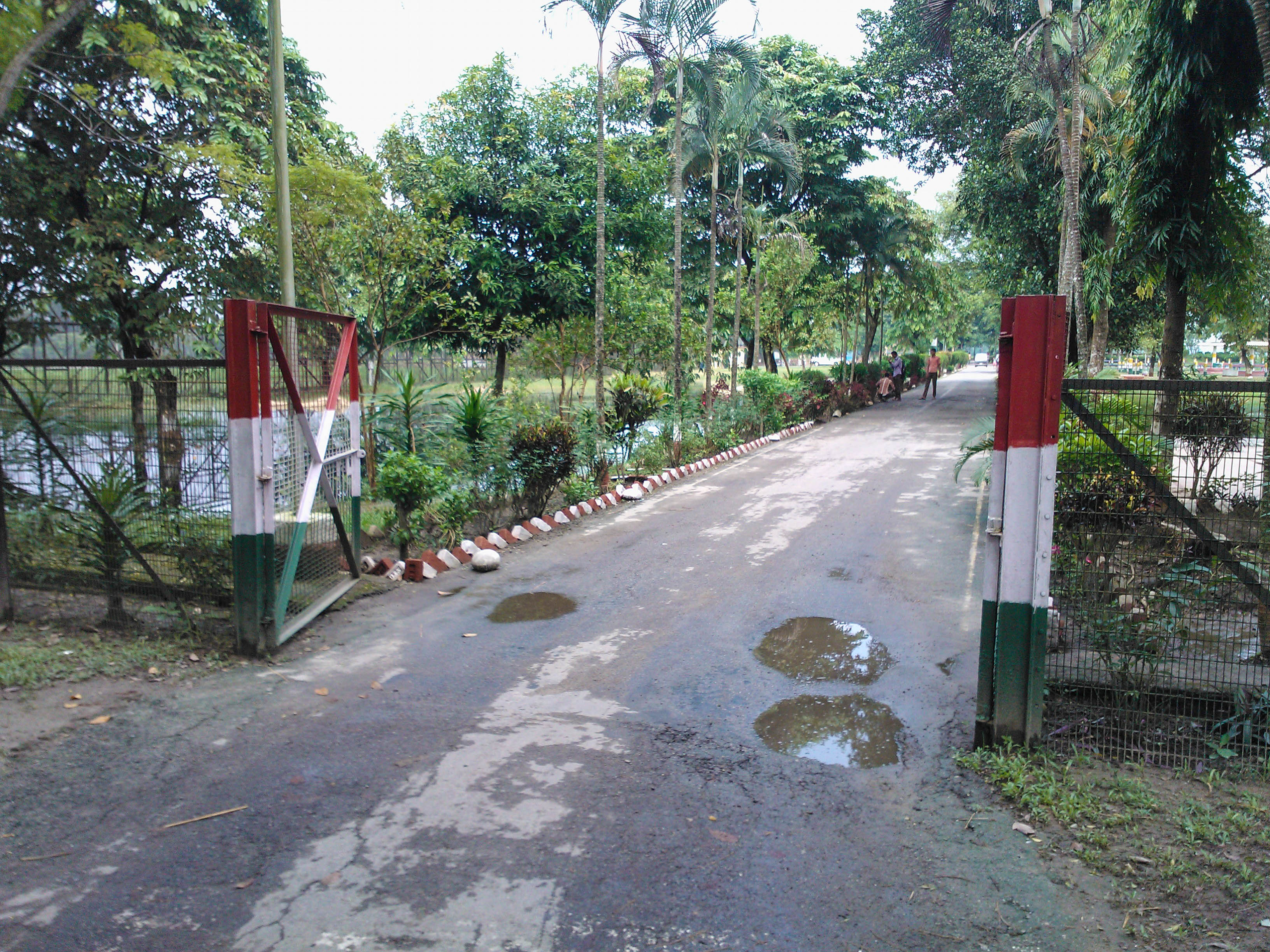 Entrance of Tin Bigha Corridor. The ‘Tin Bigha Corridor’ connceting the Dahgram-Angarpota enclave with mainland Bangladesh.